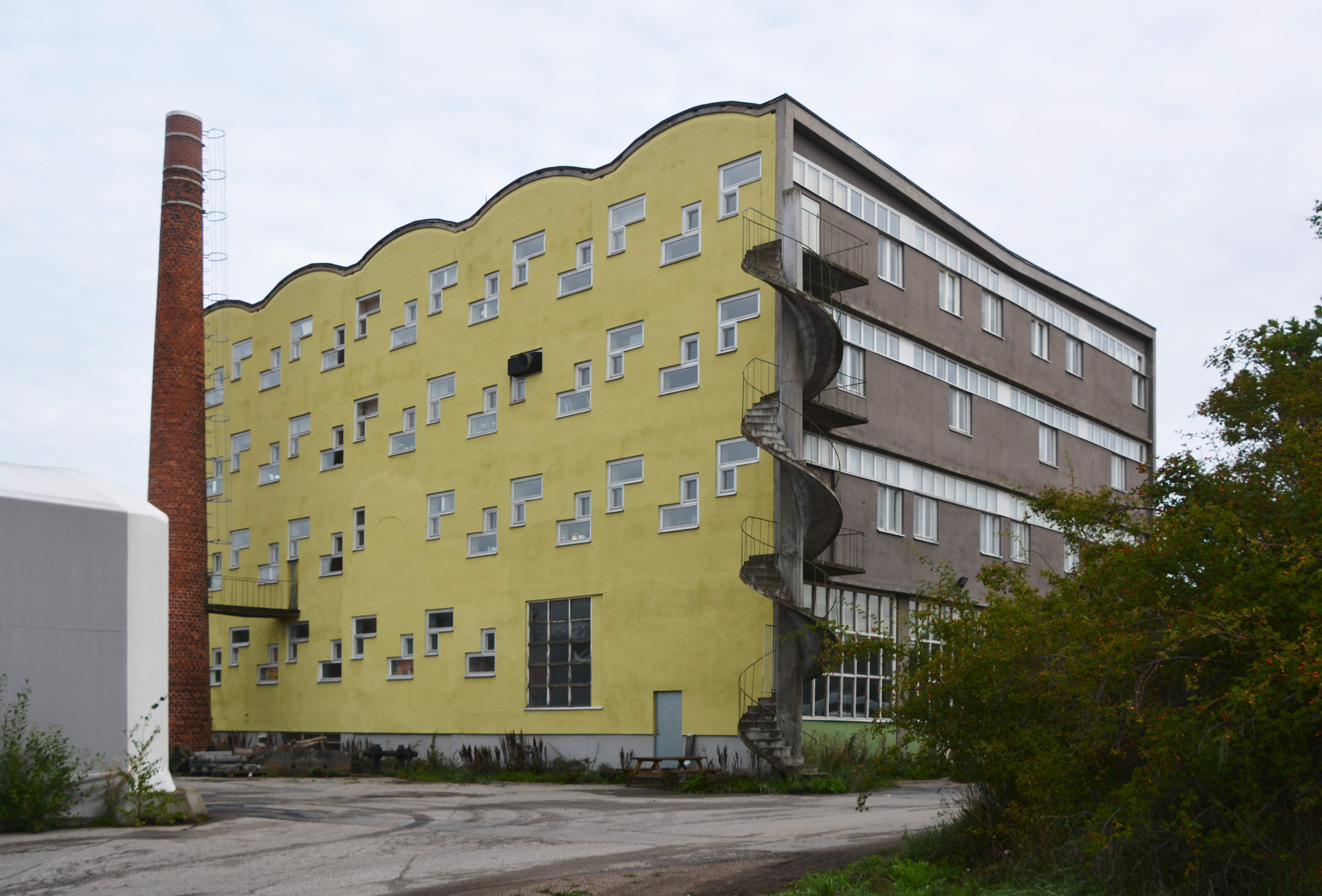 Tvålfabriken i Gnesta, Arkitekt: Ralph Erskine